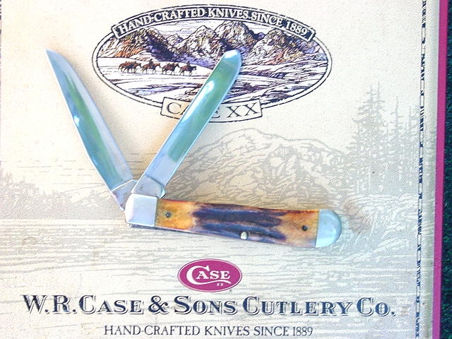 A Case Trapper knife with stag scales.